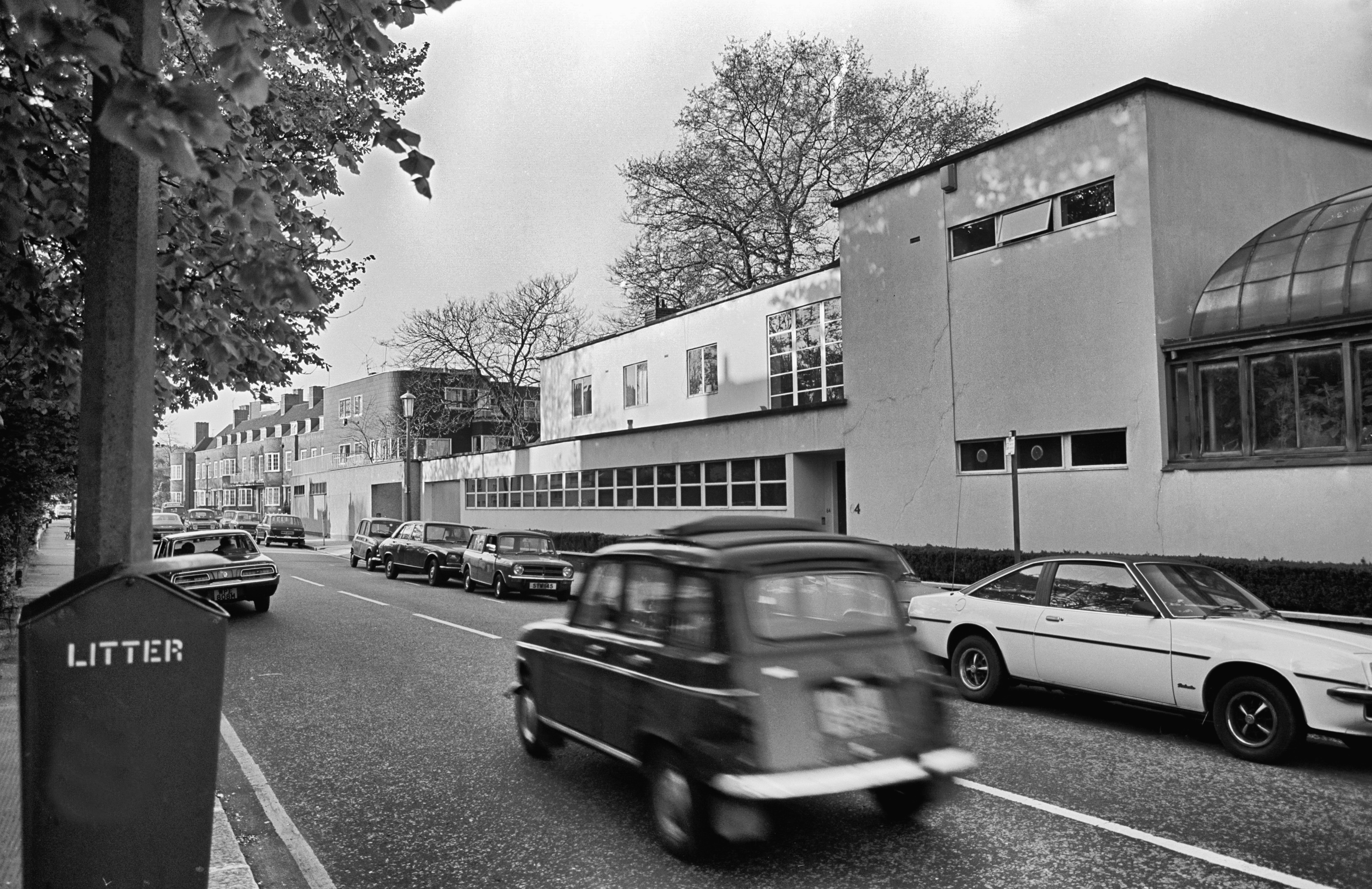 I cycled around London looking for these outstanding examples of architecture in the 1930s. Project while attending Epsom School of Art and Design (1977-80). Looking towards 64 Old Church Street, Chelsea, London SW3 6EP, a long, low house built in 1936. Architects, Mendelsohn and Chermayeff. Conservatory added by Norman Foster.[1]